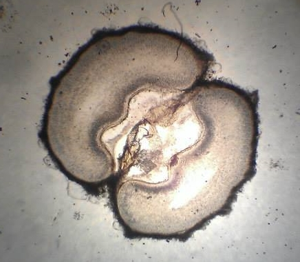 Cross section of anise fruit seen on light microscope